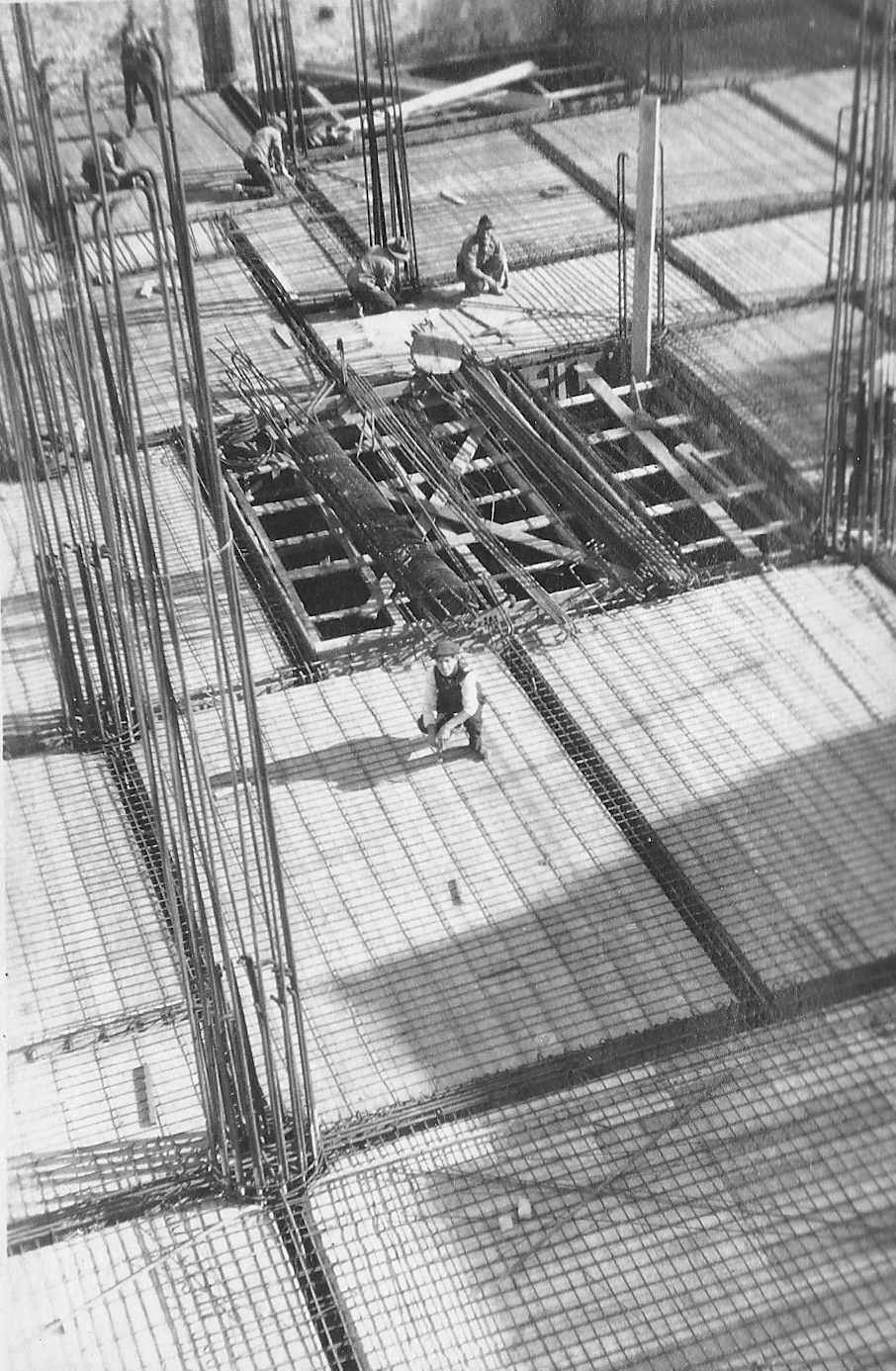 A progress shot taken during the construction of the Palacio Fuentes in Rosario (Argentina). The picture was taken for promotional purposes by the construction firm.